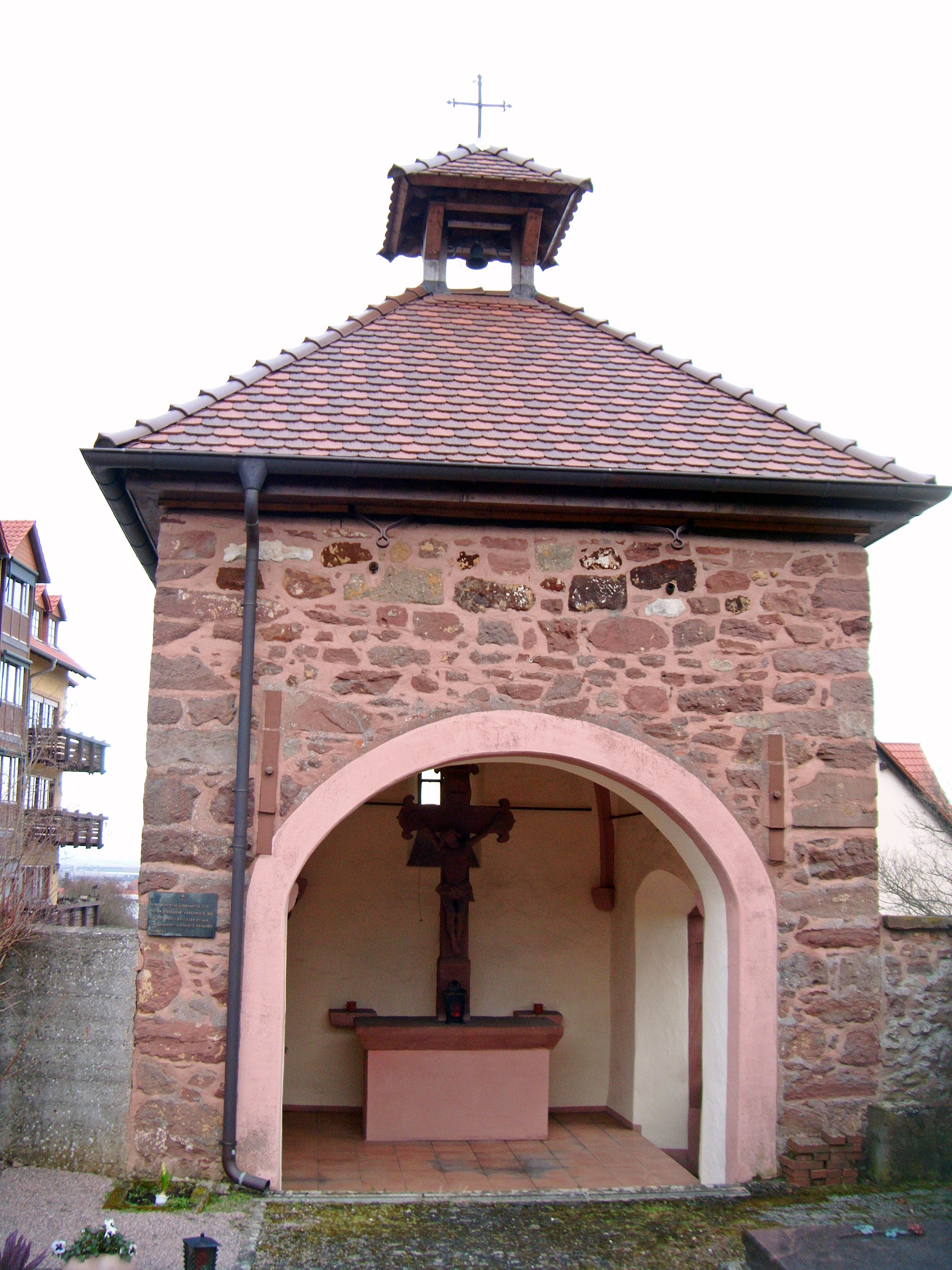 Neuleiningen, Friedhof, Heiligenhäuschen